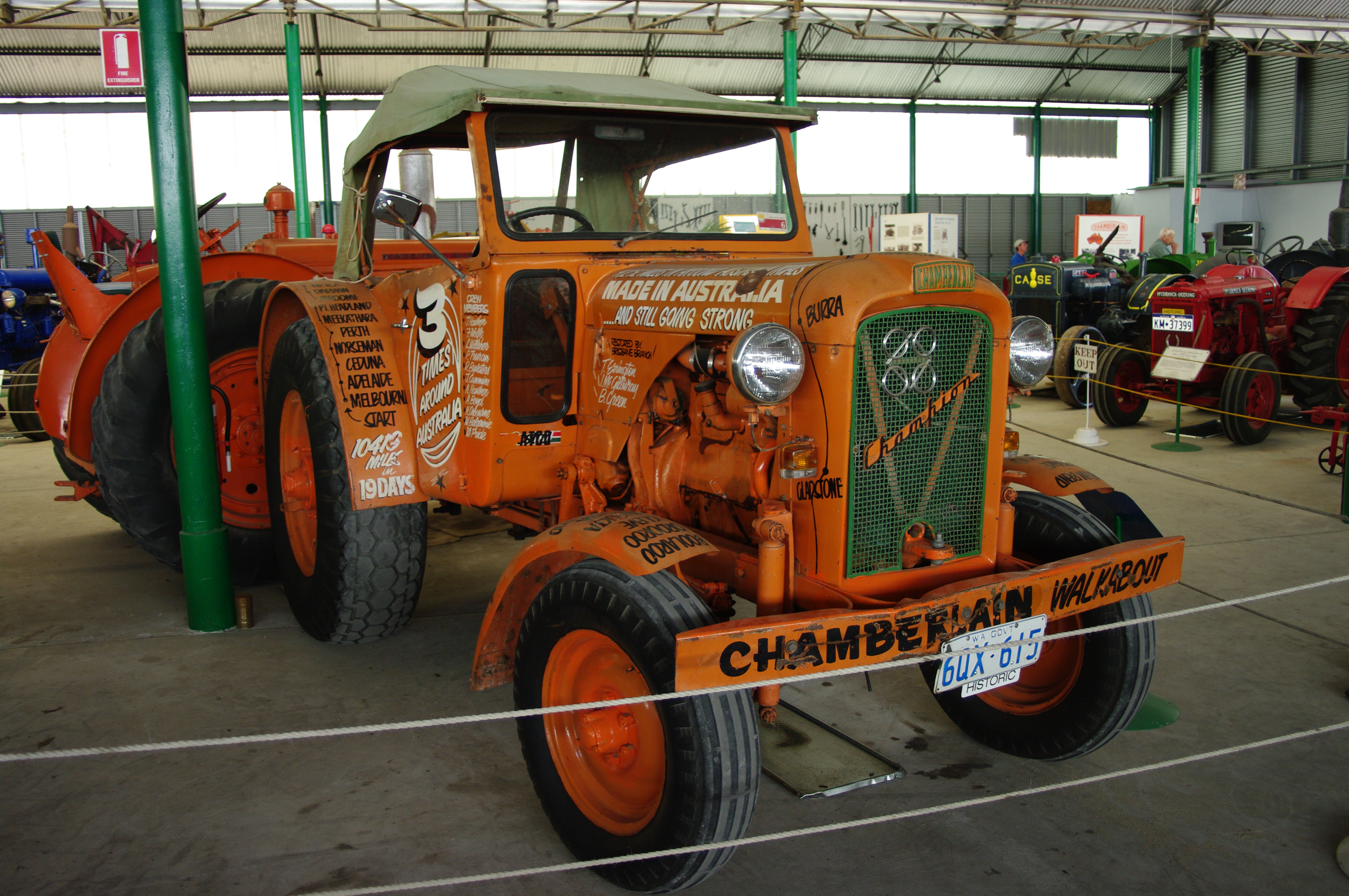 in 1955 Tail End Charlie was a Western Australian built Chamberlain Tractor. The first diesel engine tractor by Chamberlian as part of a publicity stunt was entered in the 1955 Redex around Australia Rally Currently on display in the Tractor Museum at Whiteman Park the tractor is still licensed and used during special events